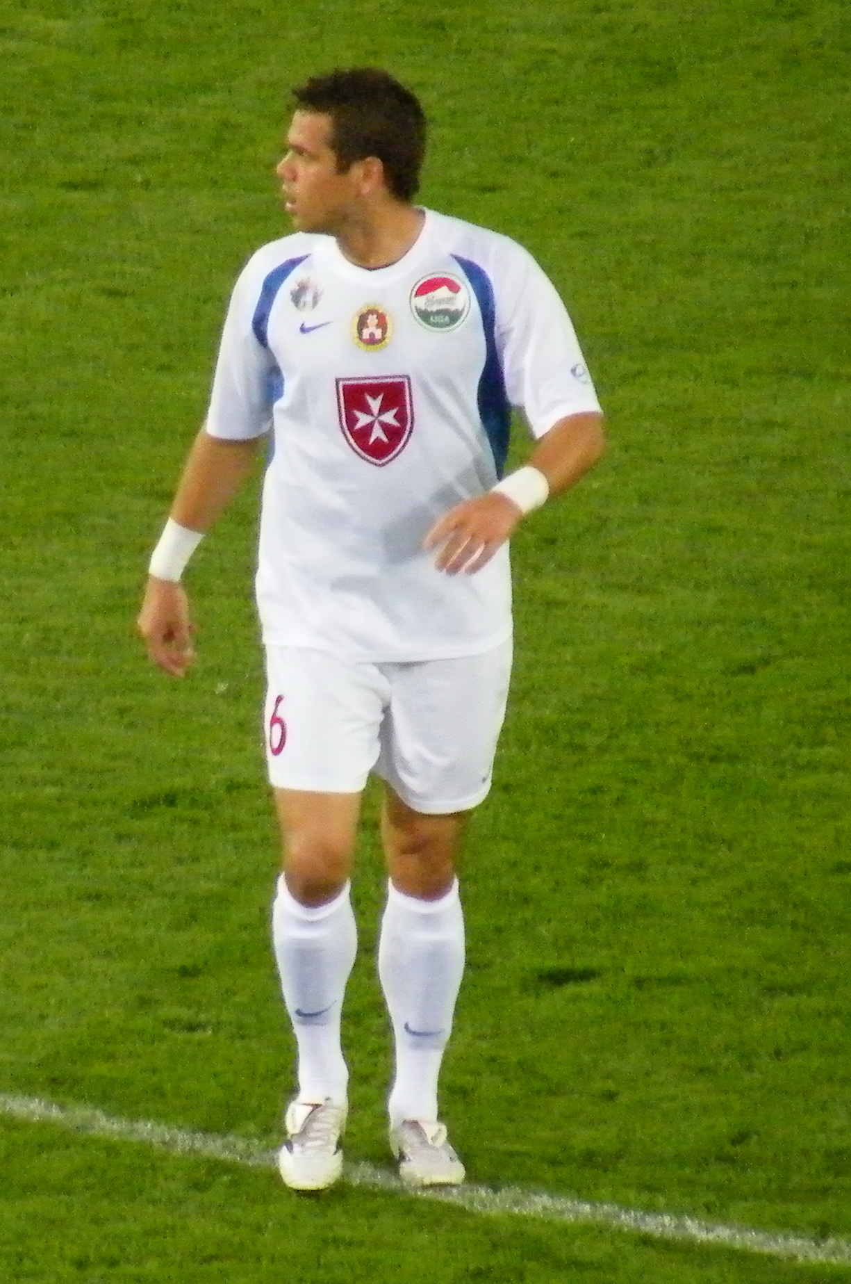 Tamás Sifter Hungarian football player